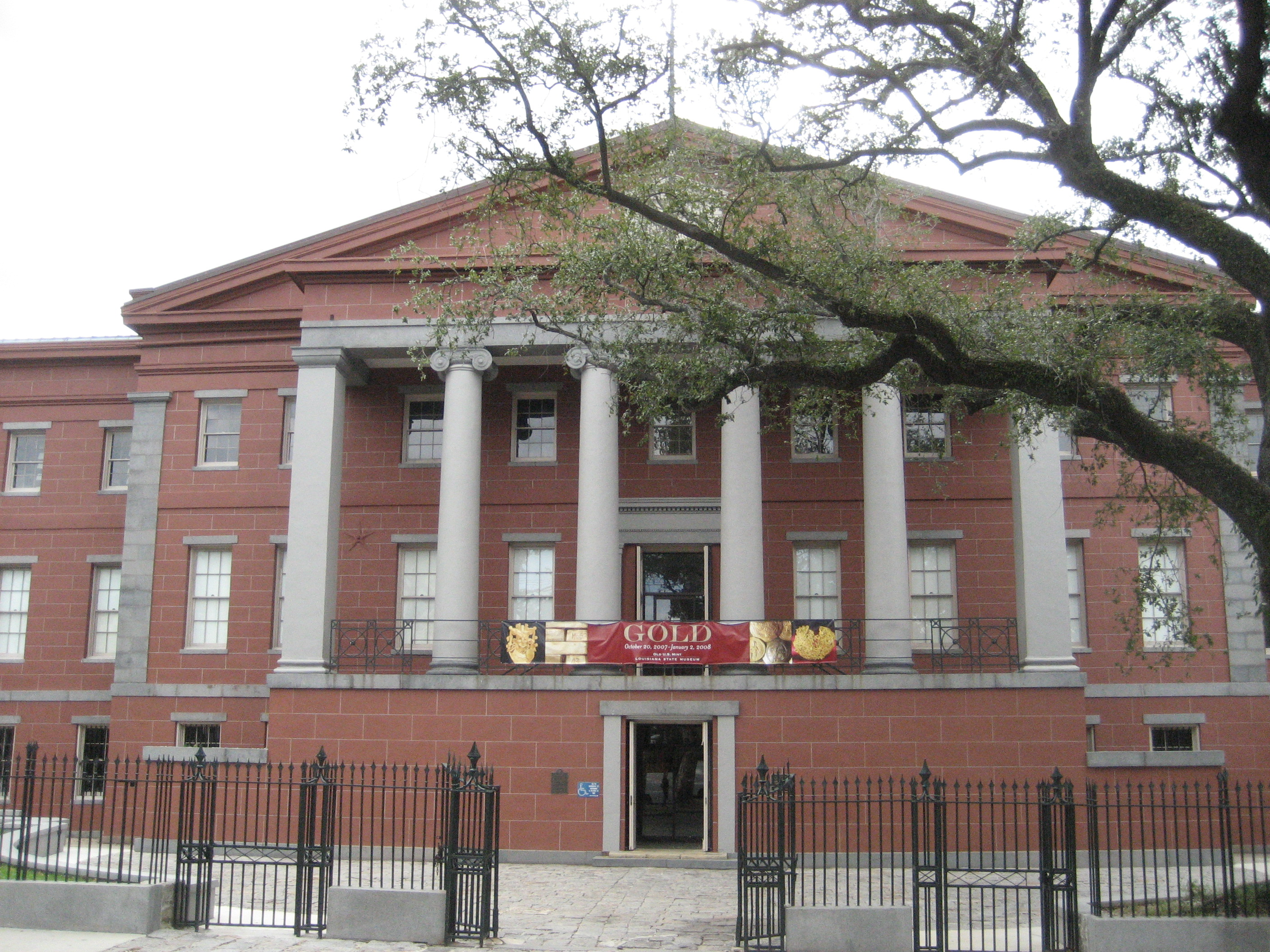 New Orleans: Old Mint building museum reopened for the first time since Hurricane Katrina more than 2 years earlier, with a special exhibit of gold noted on banner over the door.